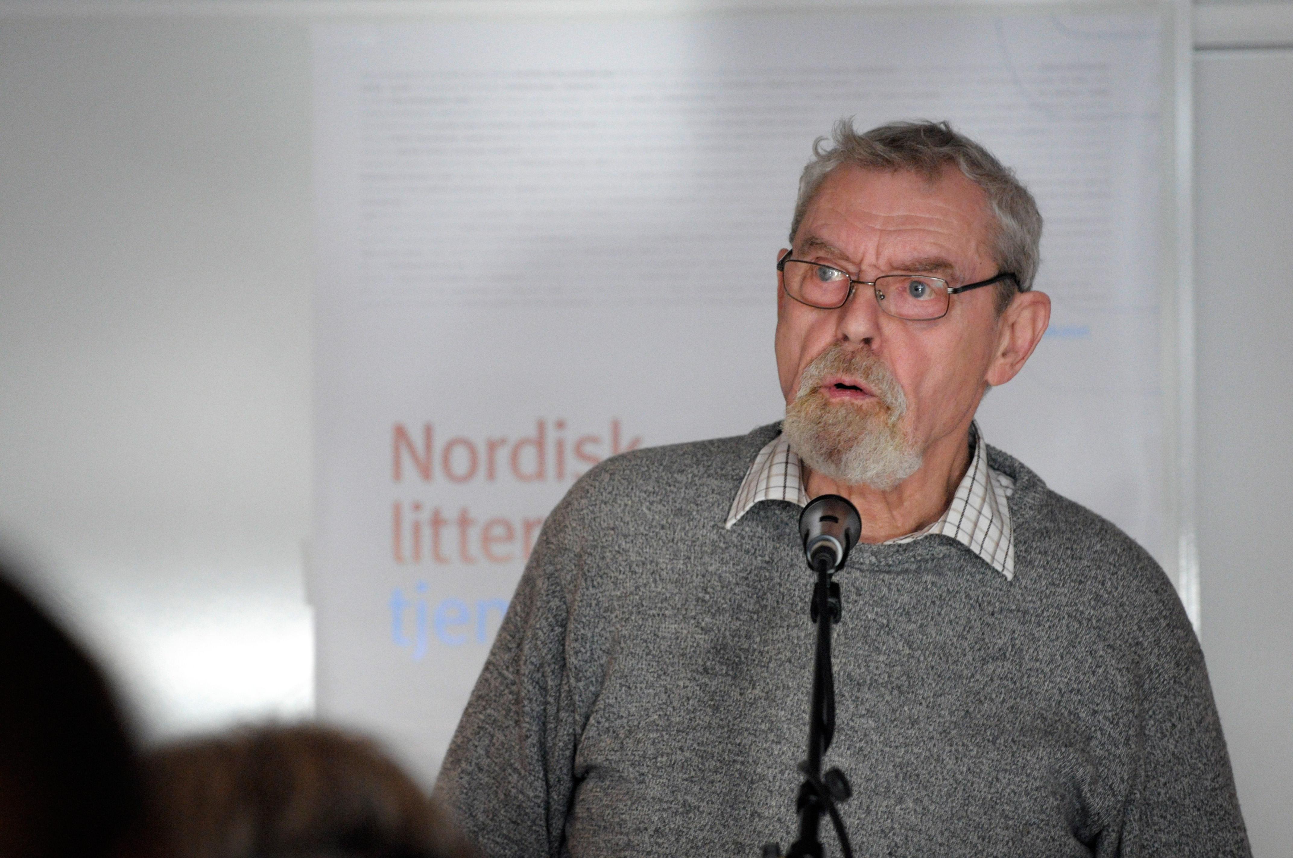 Torben Brostrøm professor i dansk litteratur talar vid lanseringen av Nordisk litteratur til tjeneste på Sorte diamant i Köpenhamn 2008-03-05